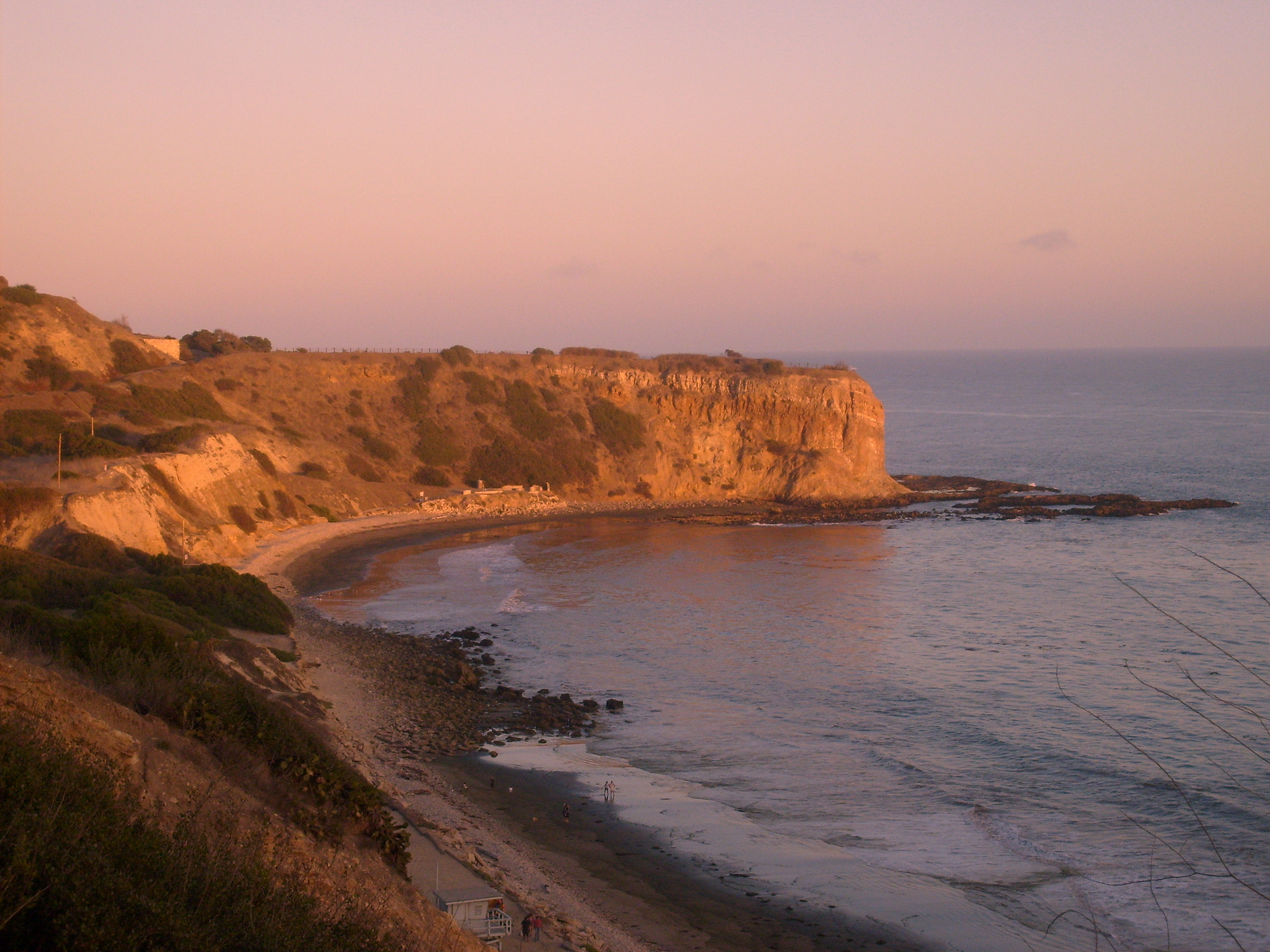 Portuguese Point — near Portuguese Bend on the Palos Verdes Peninsula, Southern California.